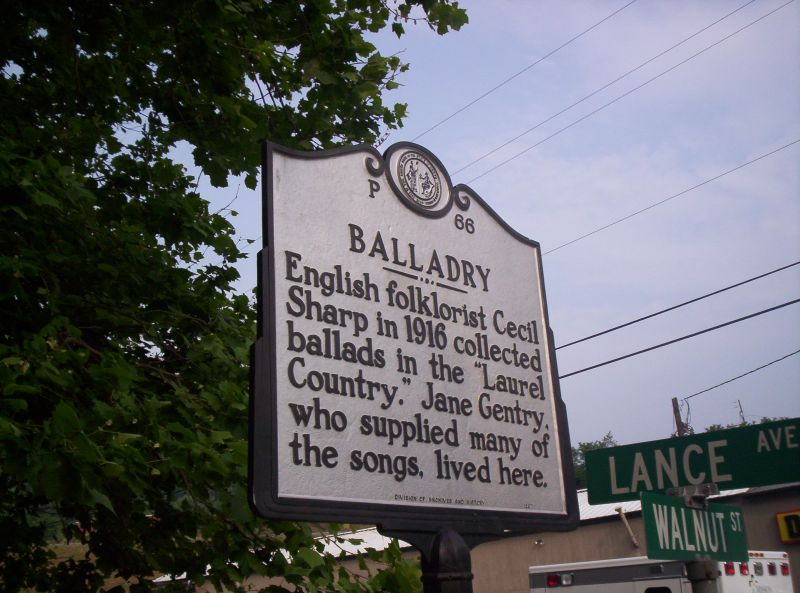 Sign about Cecil Sharp and Jane Gentry in Hot Springs, NC